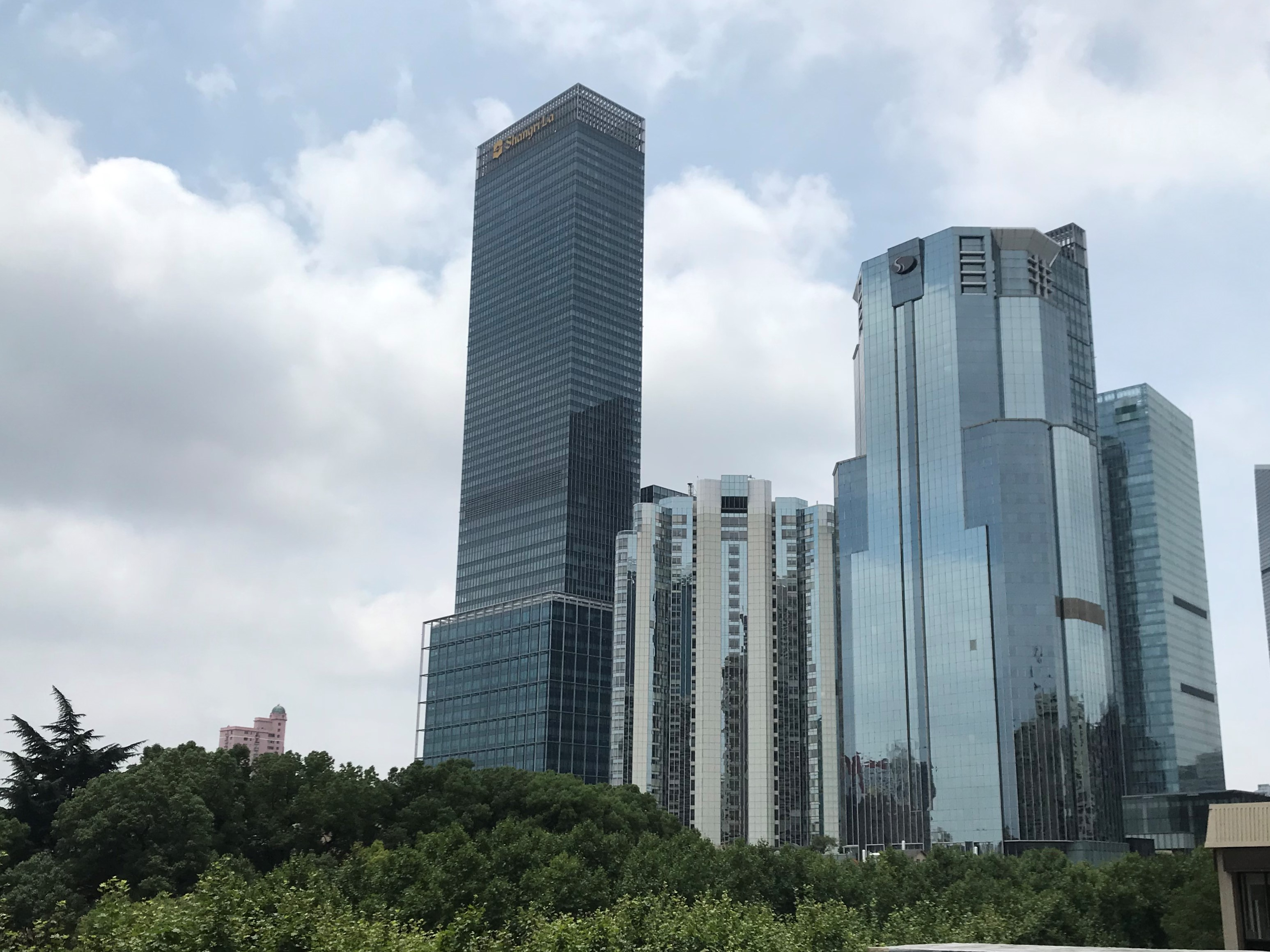 Viewed from the mezzanine of Shanghai Centre